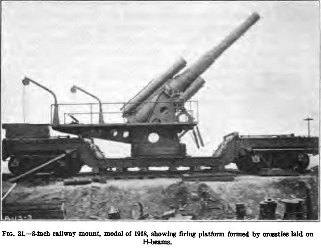 This is an 8-inch gun M1888 on an M1918 railway carriage.